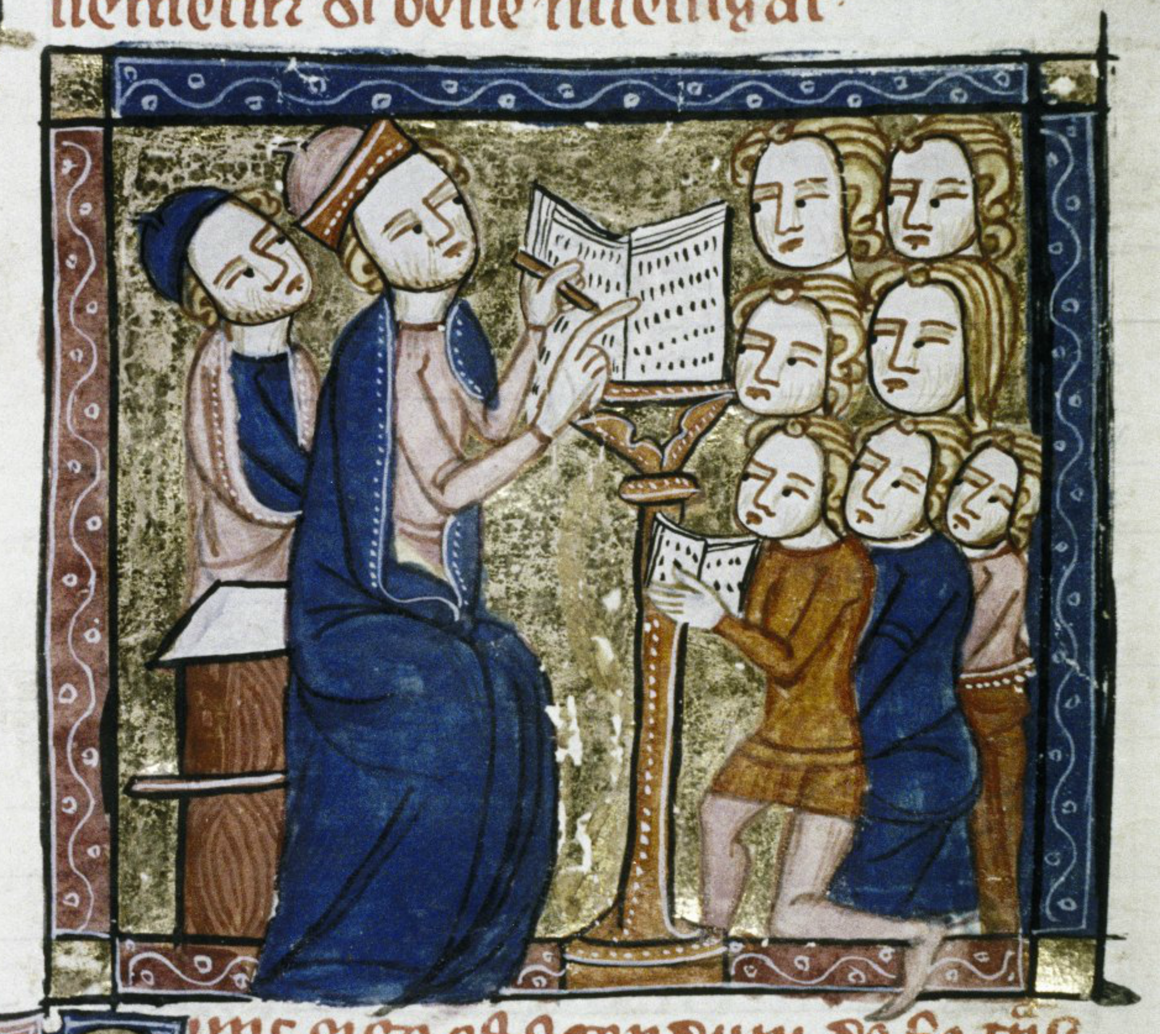 William of Nottingham and an assistant teaching a group of students at Oxford or Cambridge.